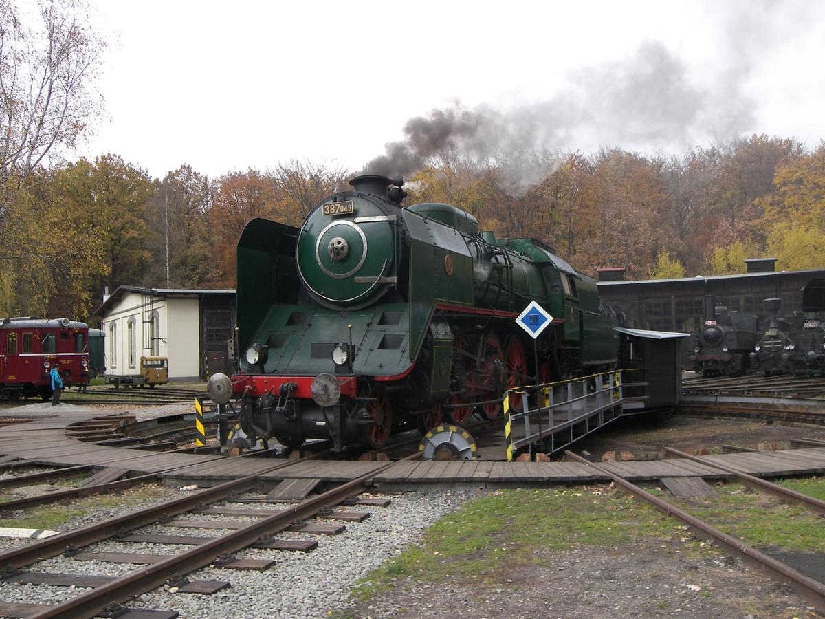 Railway museum Lužná u Rakovníka Czech republic